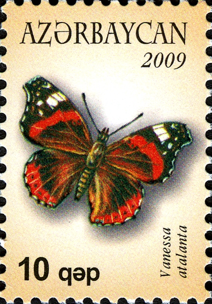 Vanessa Atalanta Azerbaijan